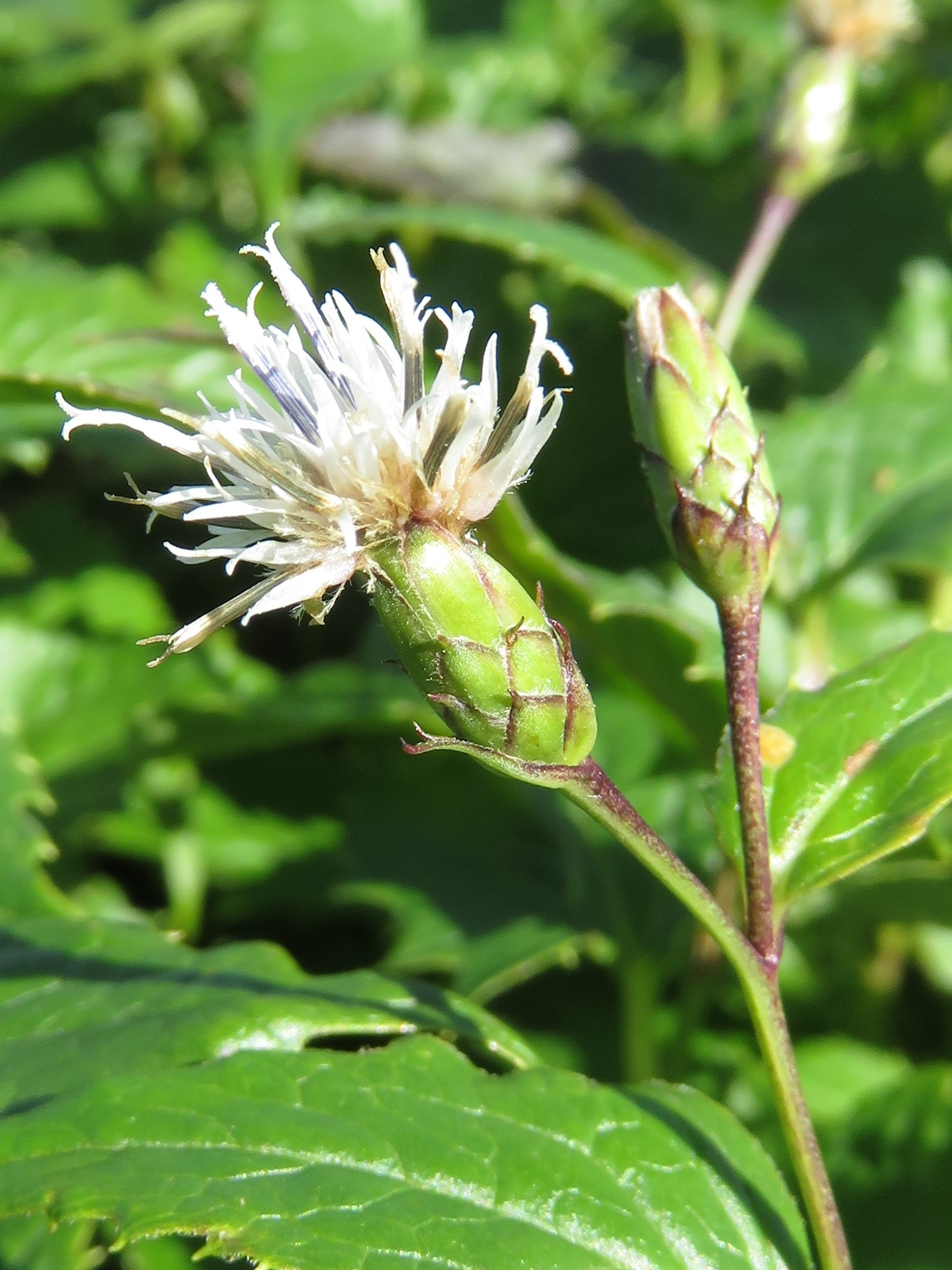 Saussurea sagitta, Mount Iwate, Iwate pref., Japan